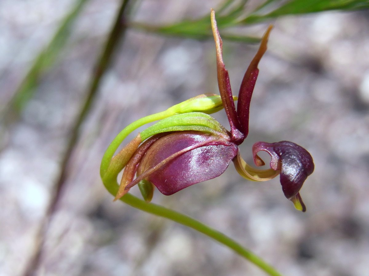 Caleana major off the Elvina Track, Ku-ring-gai Chase National Park, Australia